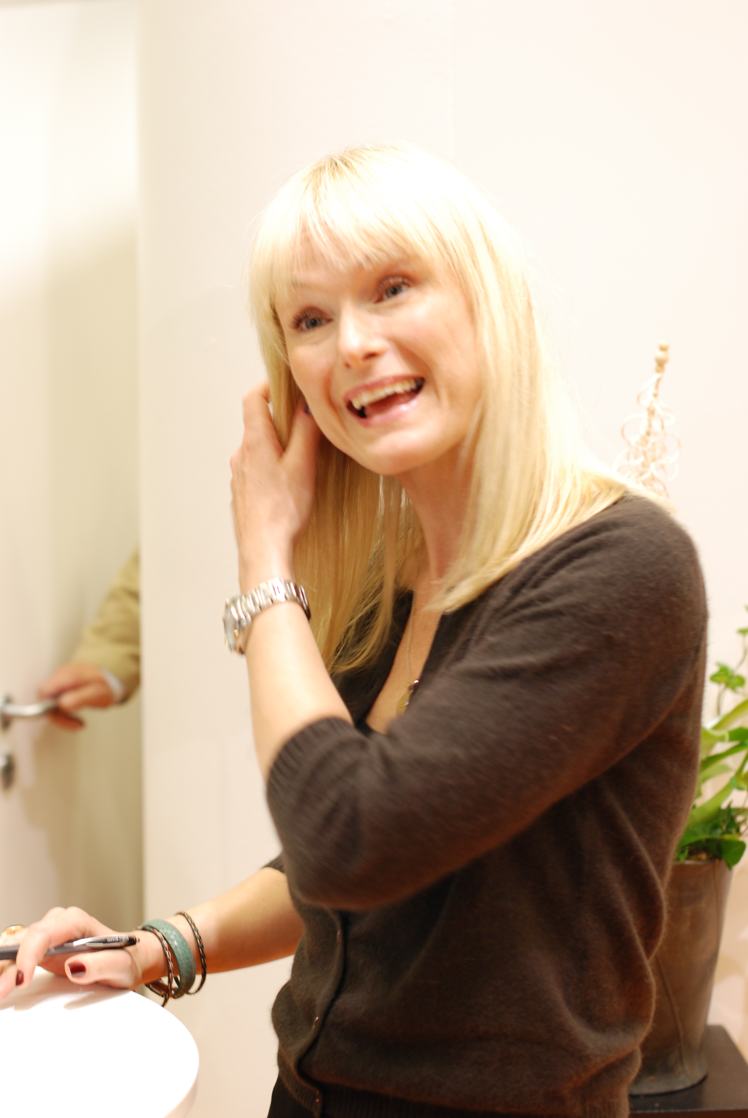 Swedish artist CajsaStina Åkerström at the Göteborg Book Fair 2010